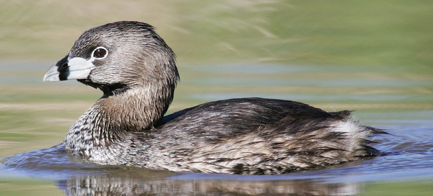 Crop of file in filename